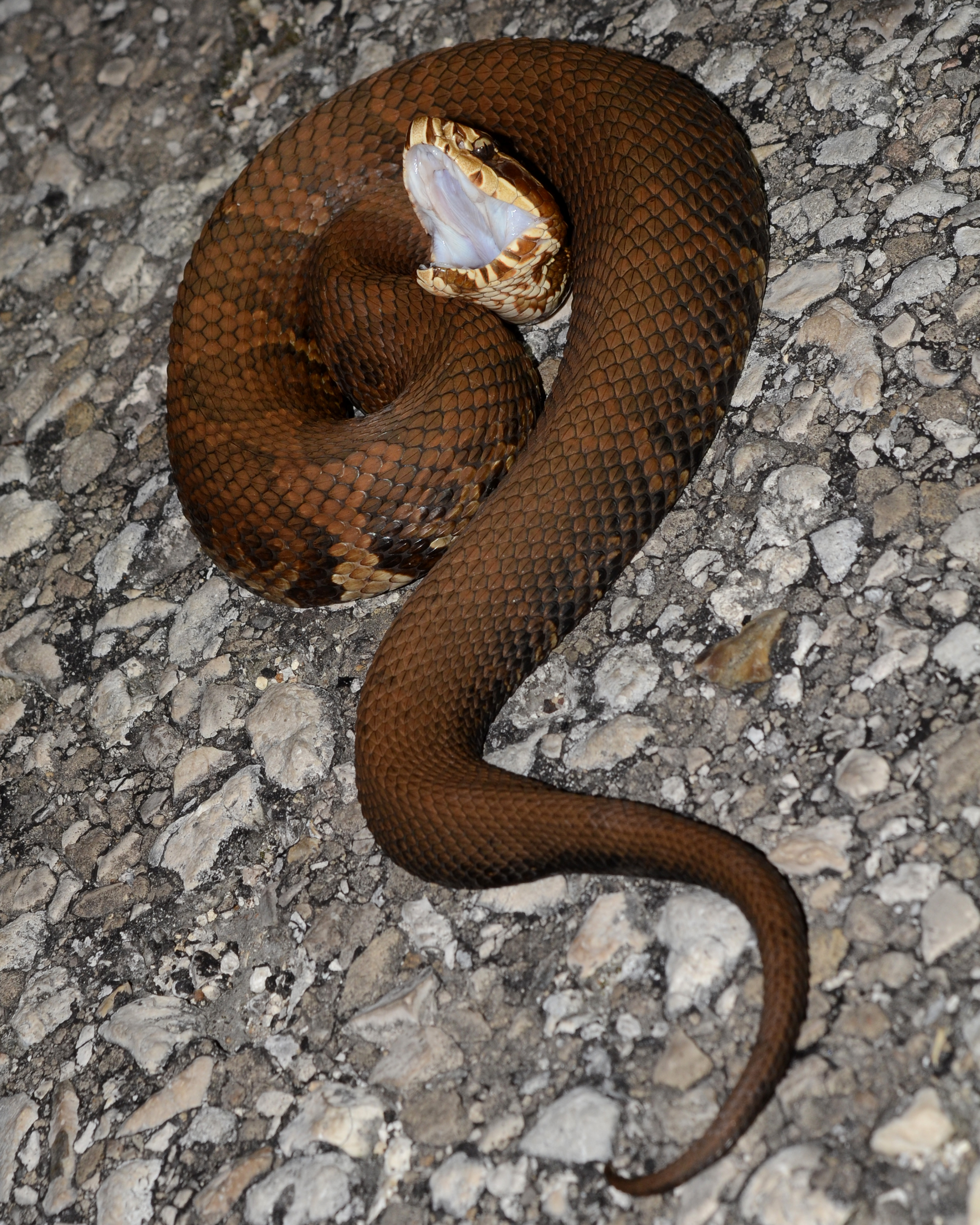 North-central Florida